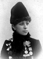 Photograph of the Finnish skater Nadja Franck (1867–1932).